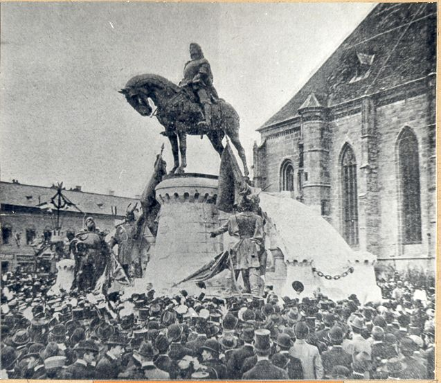 The inauguration of the Matthias Corvinus Statue, Cluj, 1902